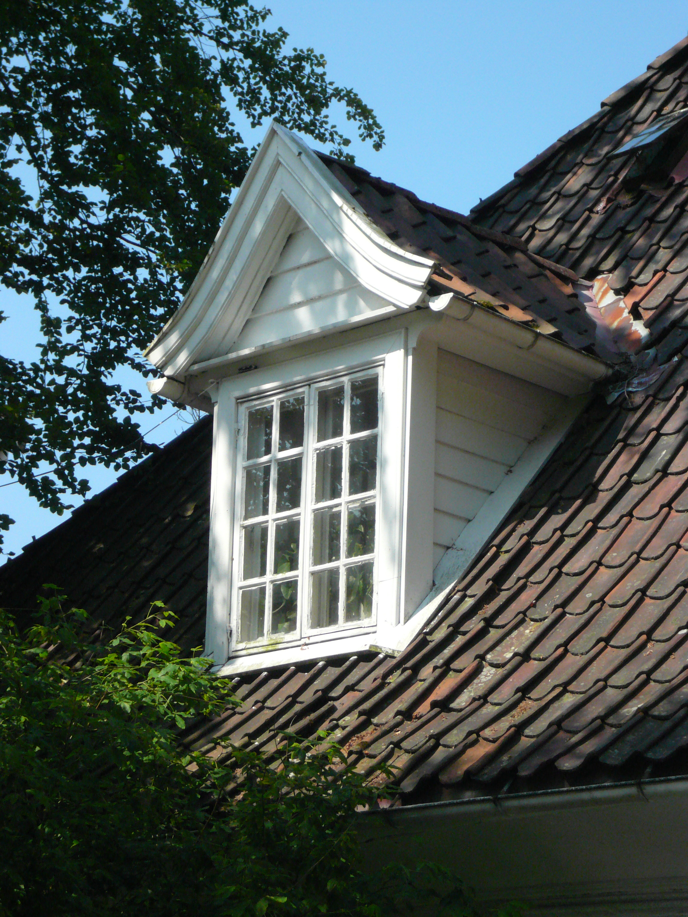 Roof window at Måseskjæret, Sandviken, Norway